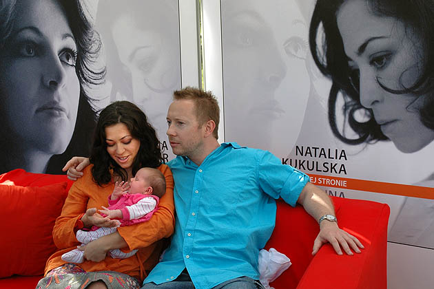 Natalia Kukulska - polish singer